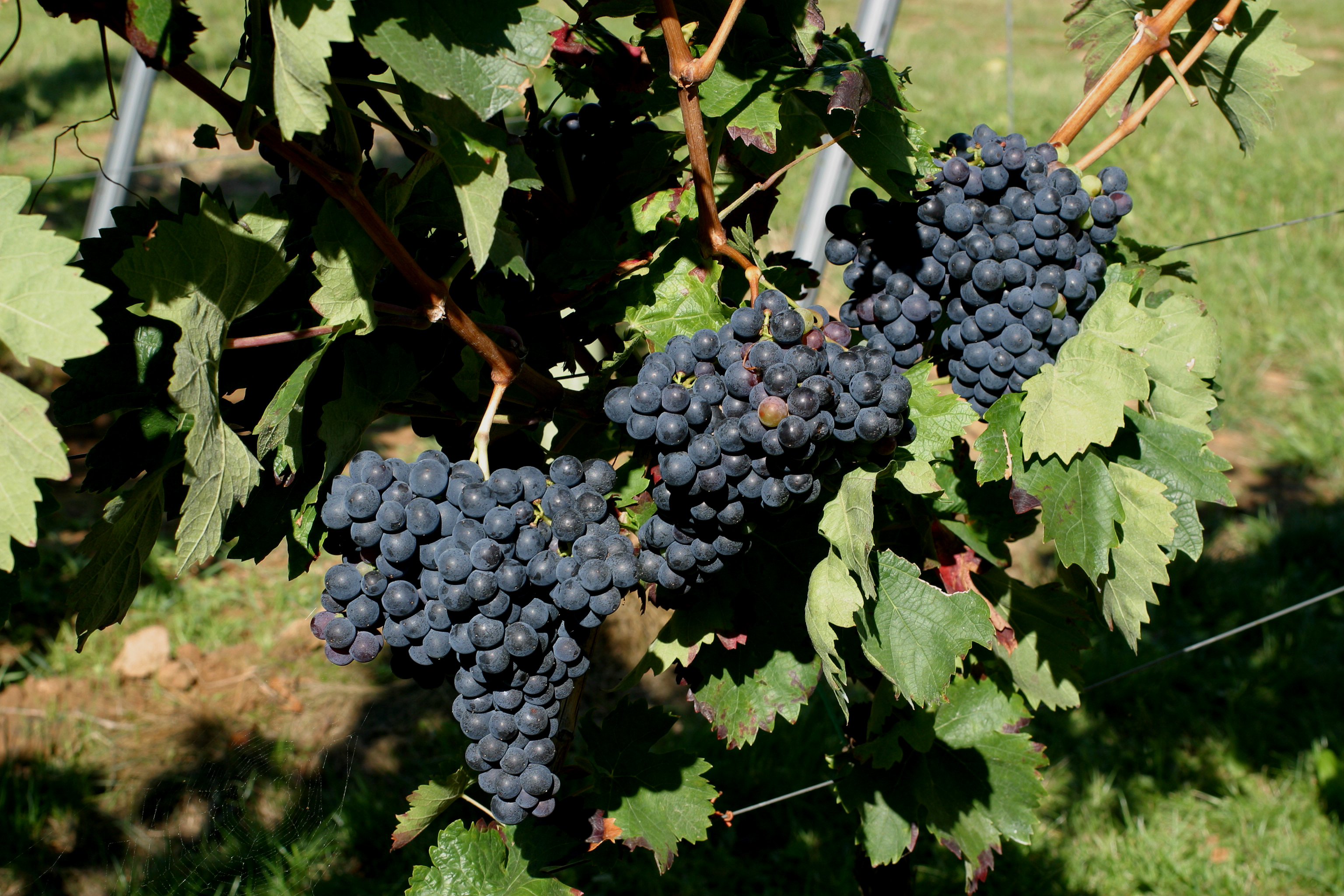 Vines of the variety Carignan Noir